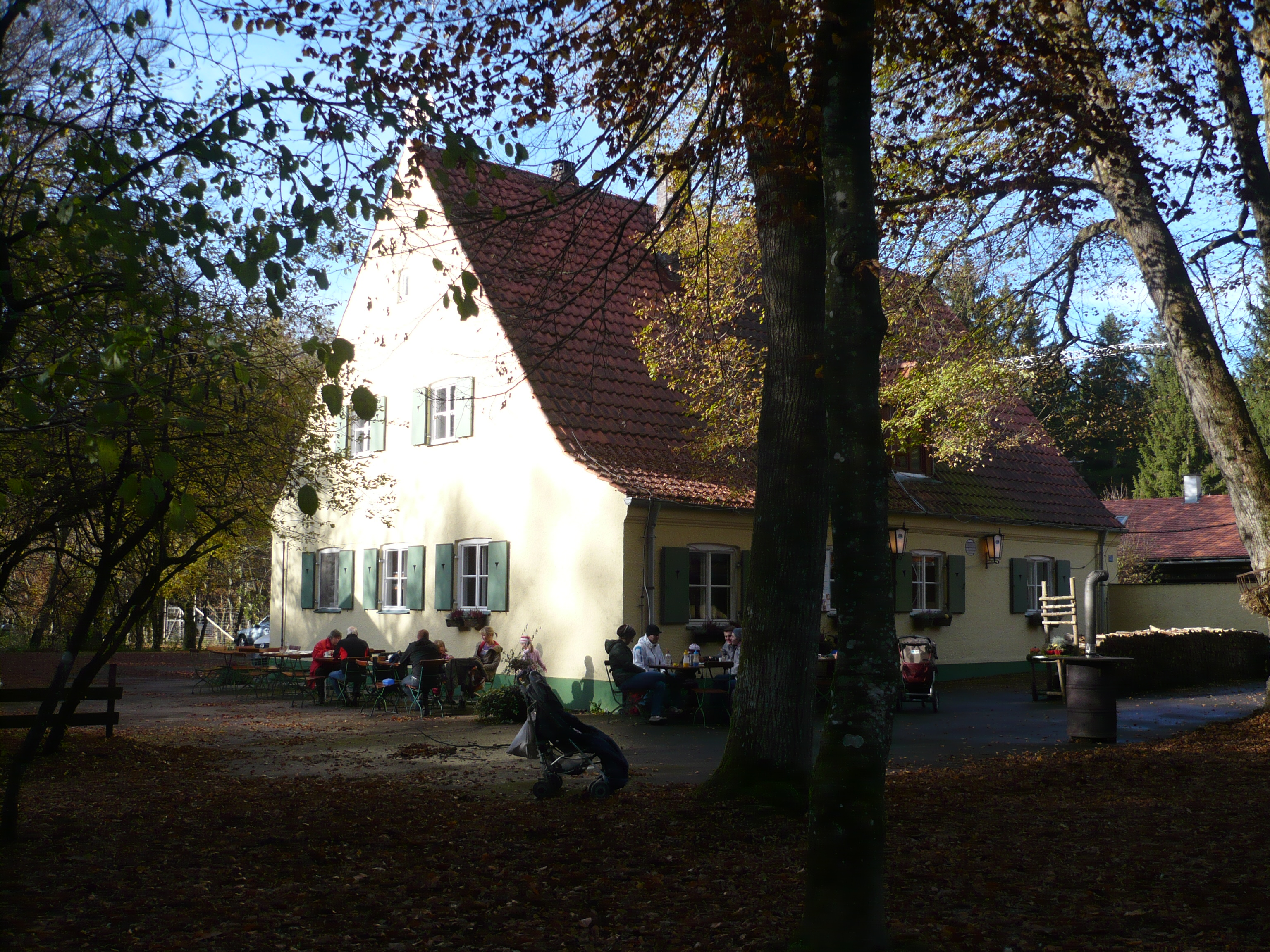 Forest House Hohenlindener Sauschuett in the Ebersberg Forest, Germany